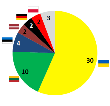 Numbers and nationalities of people killed in the Vorkuta Uprising